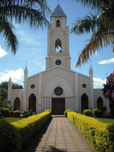 The Quiindy's Church's tower is one of the highest in the country